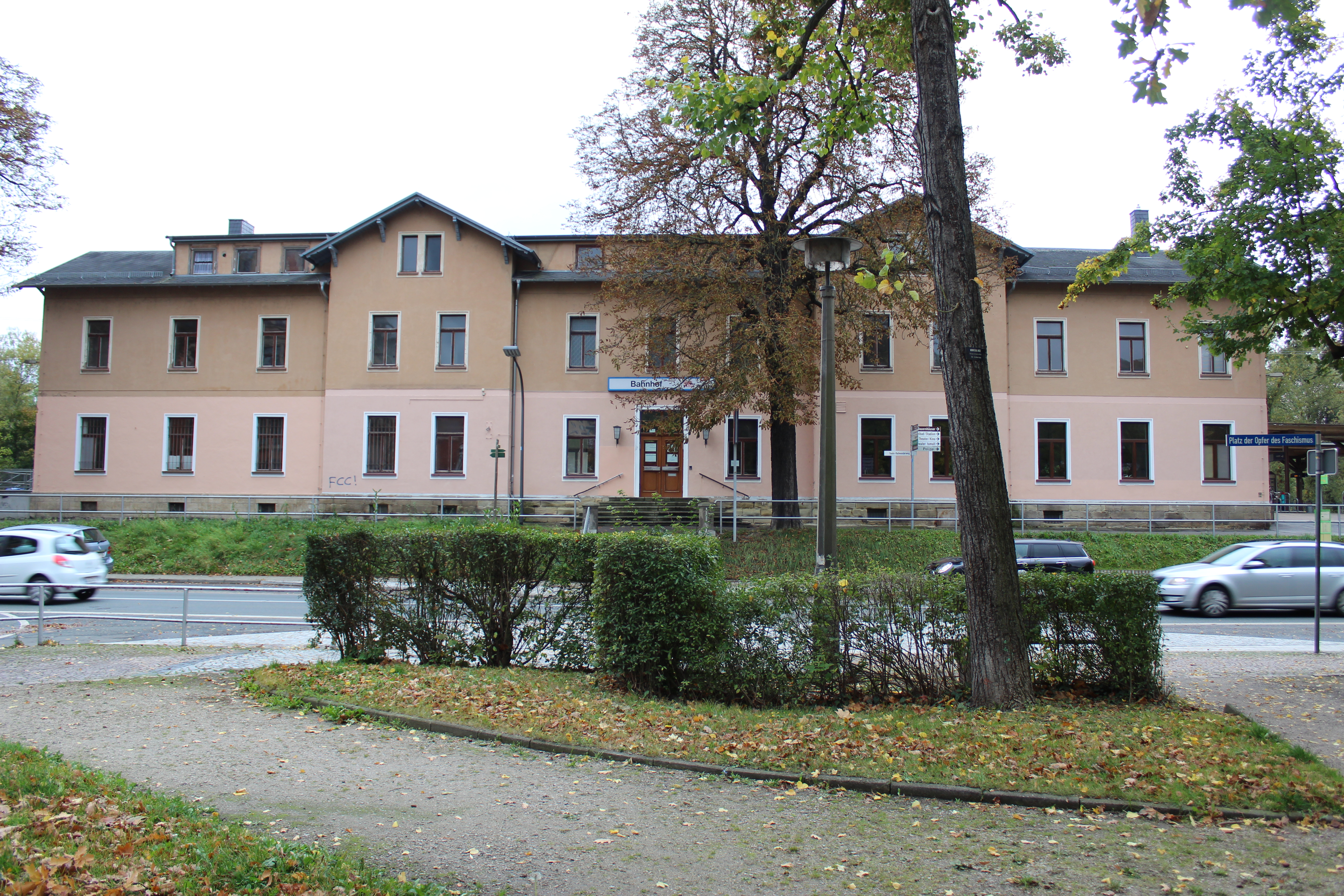 train station Rudolstadt, station building